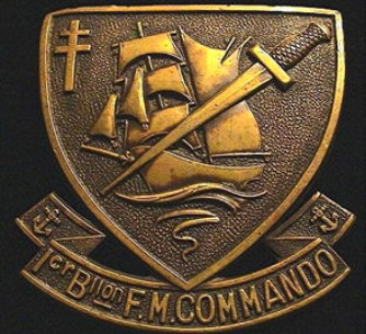 Insigne du 1er Bataillon de fusiliers marins commandos